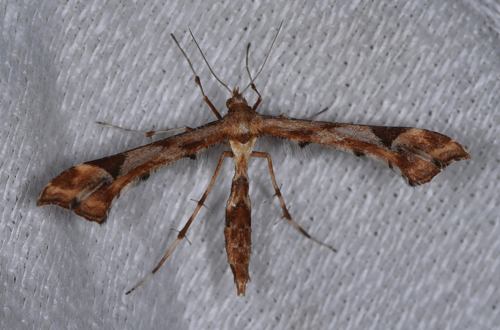 Platyptilia carduidactylus, image by Don Loarie